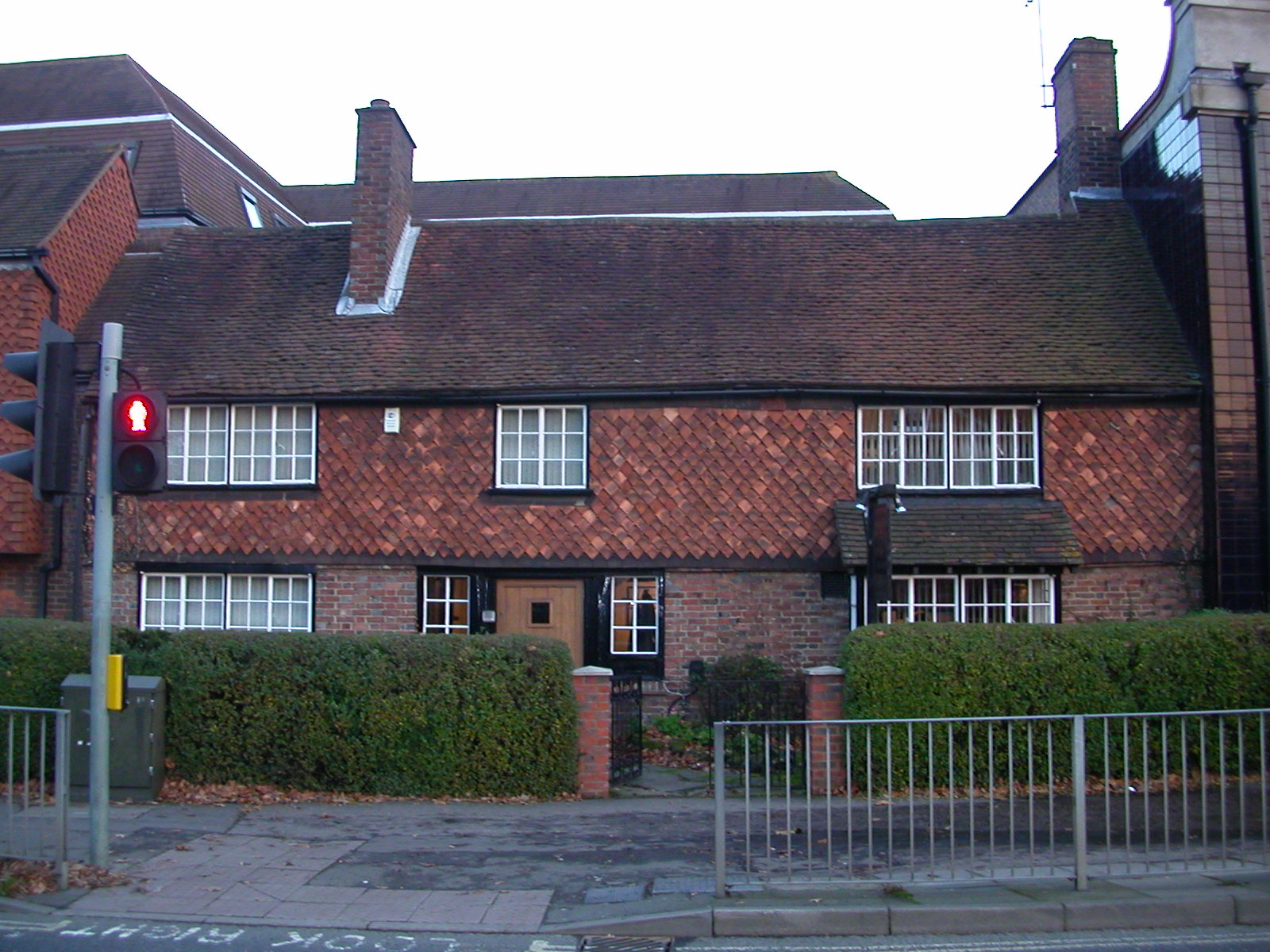 Boscobel House, 109 London Road, Northgate, Borough of Crawley, West Sussex, England: a timber-framed 17th-century house with a tile-hung upper floor. Now an office. Listed at Grade II by English Heritage (IoE code 363352)